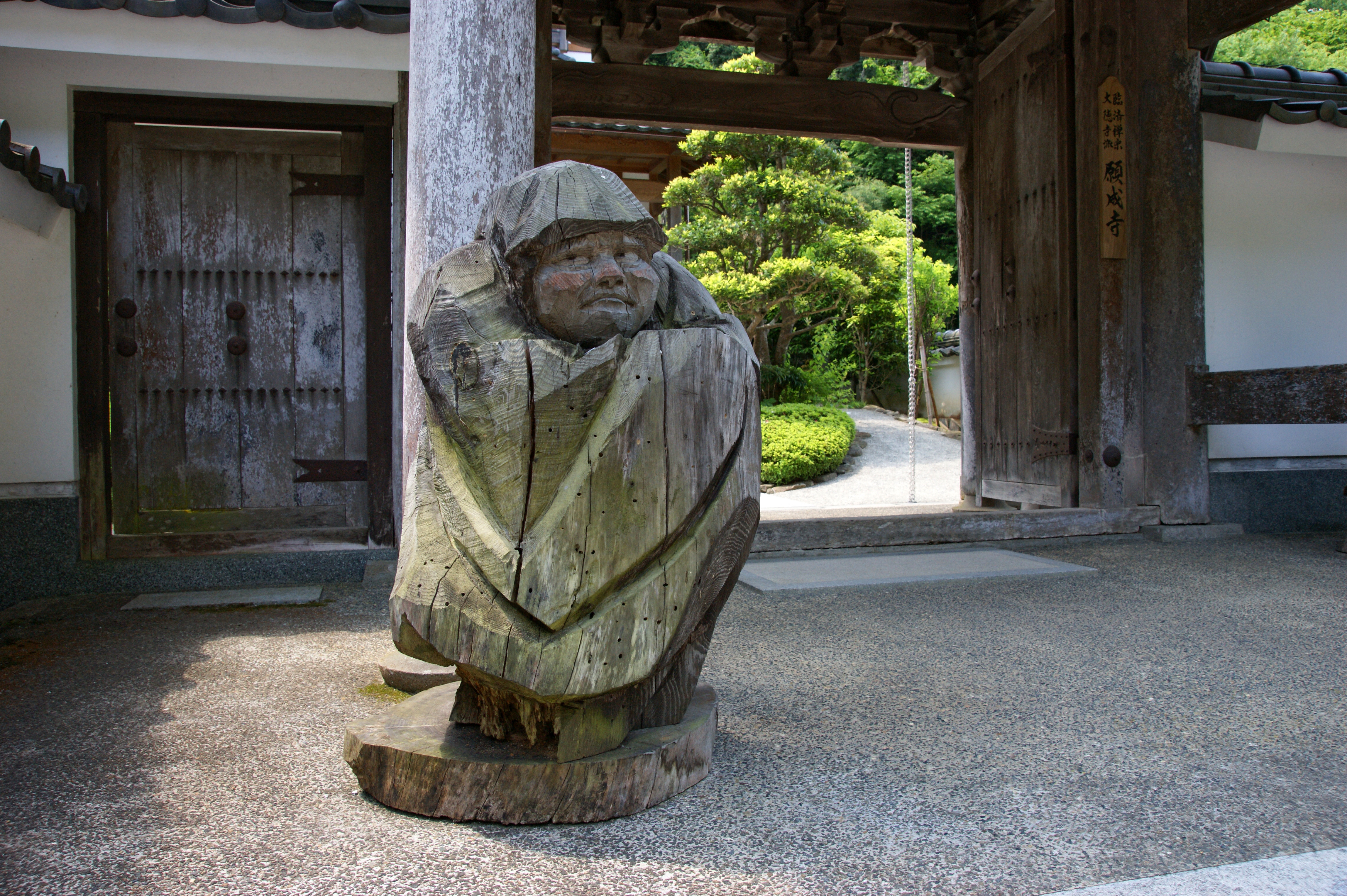 Ganjoji in Izushi, Toyooka, Hyogo prefecture, Japan